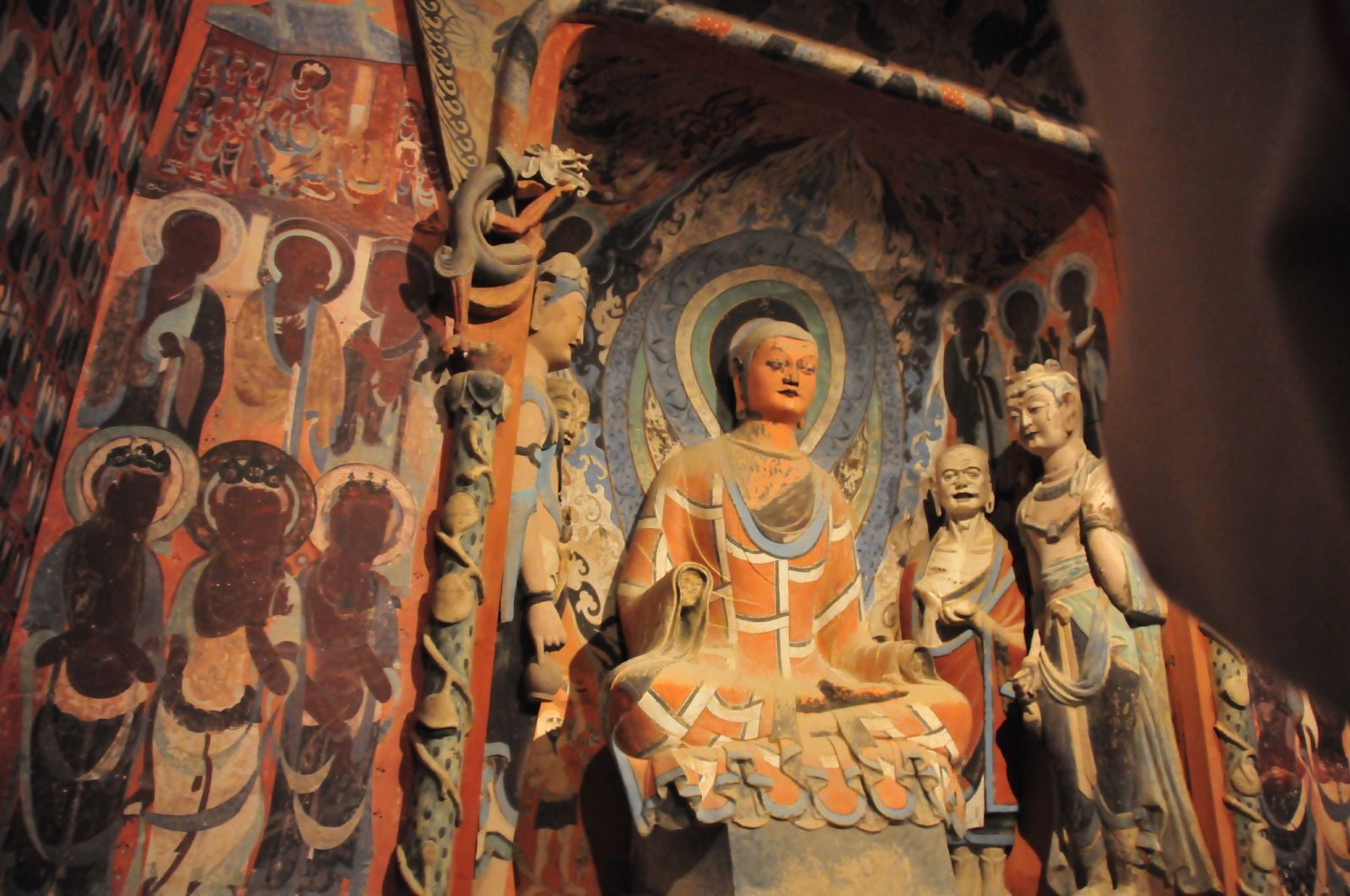 Display of reproduction of artworks from the Mogao Caves in Dunhuang at the National Art Museum of China, Beijing